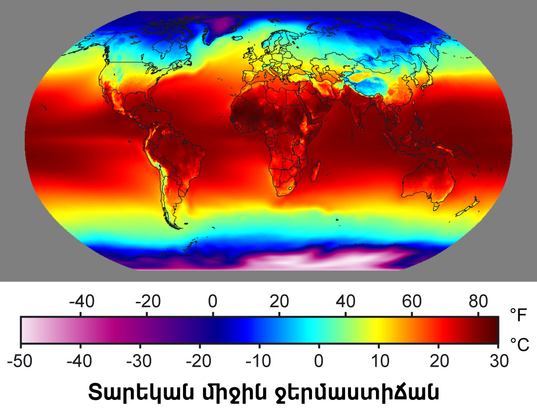 This is a global map of the annually-averaged near-surface air temperature from 1961-1990. Such maps, also known as "climatologies", provide information on climate variation as a function of location.